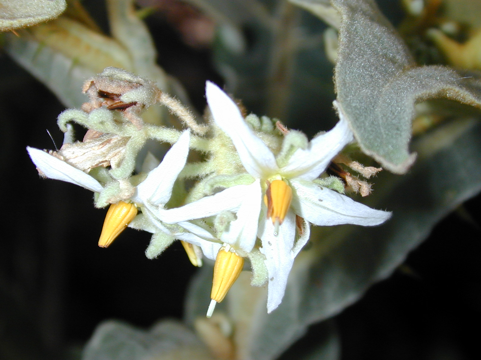 Solanum robustum (flowers). Location: Maui, Kailua